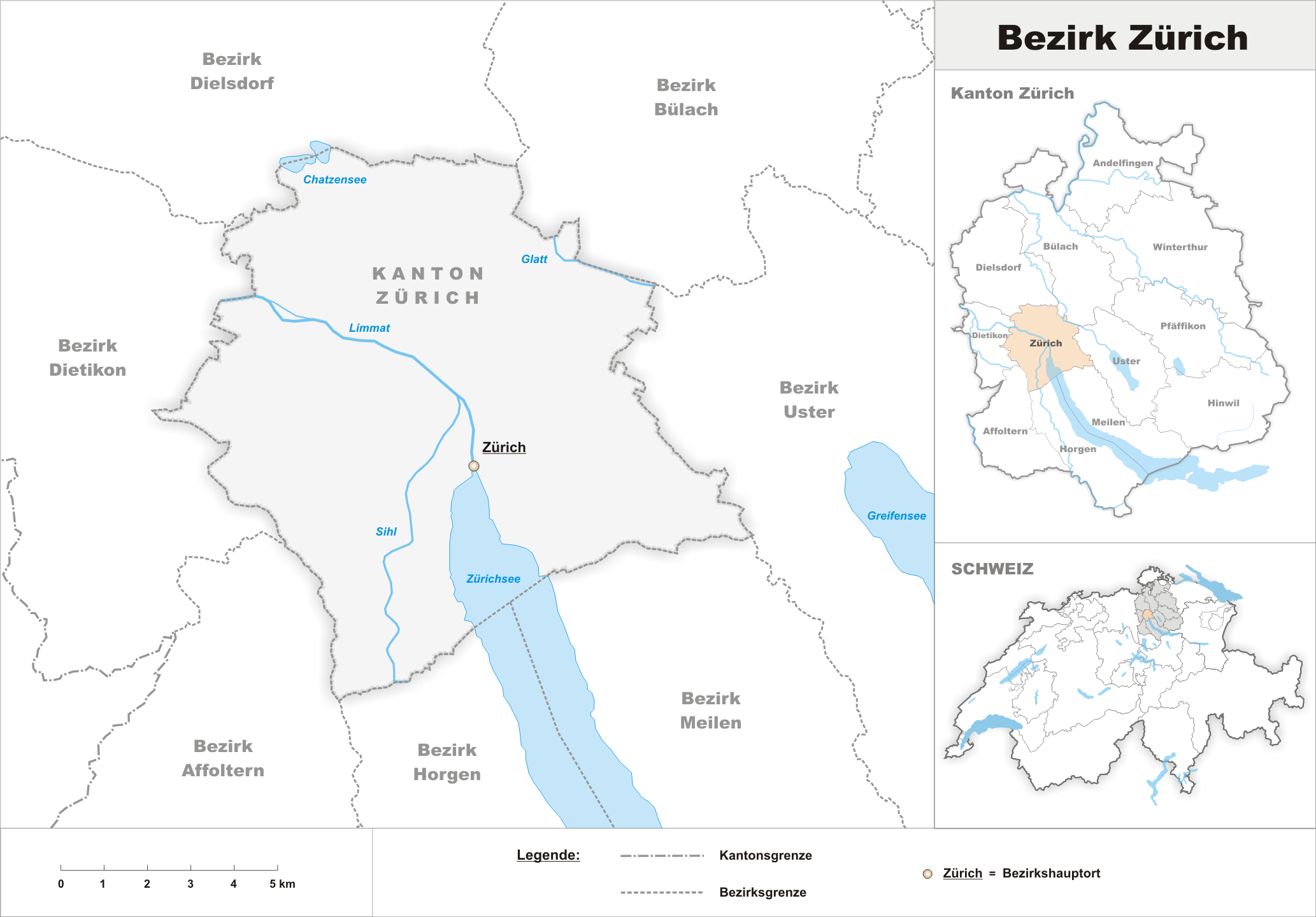 Municipalities in the district of Zürich